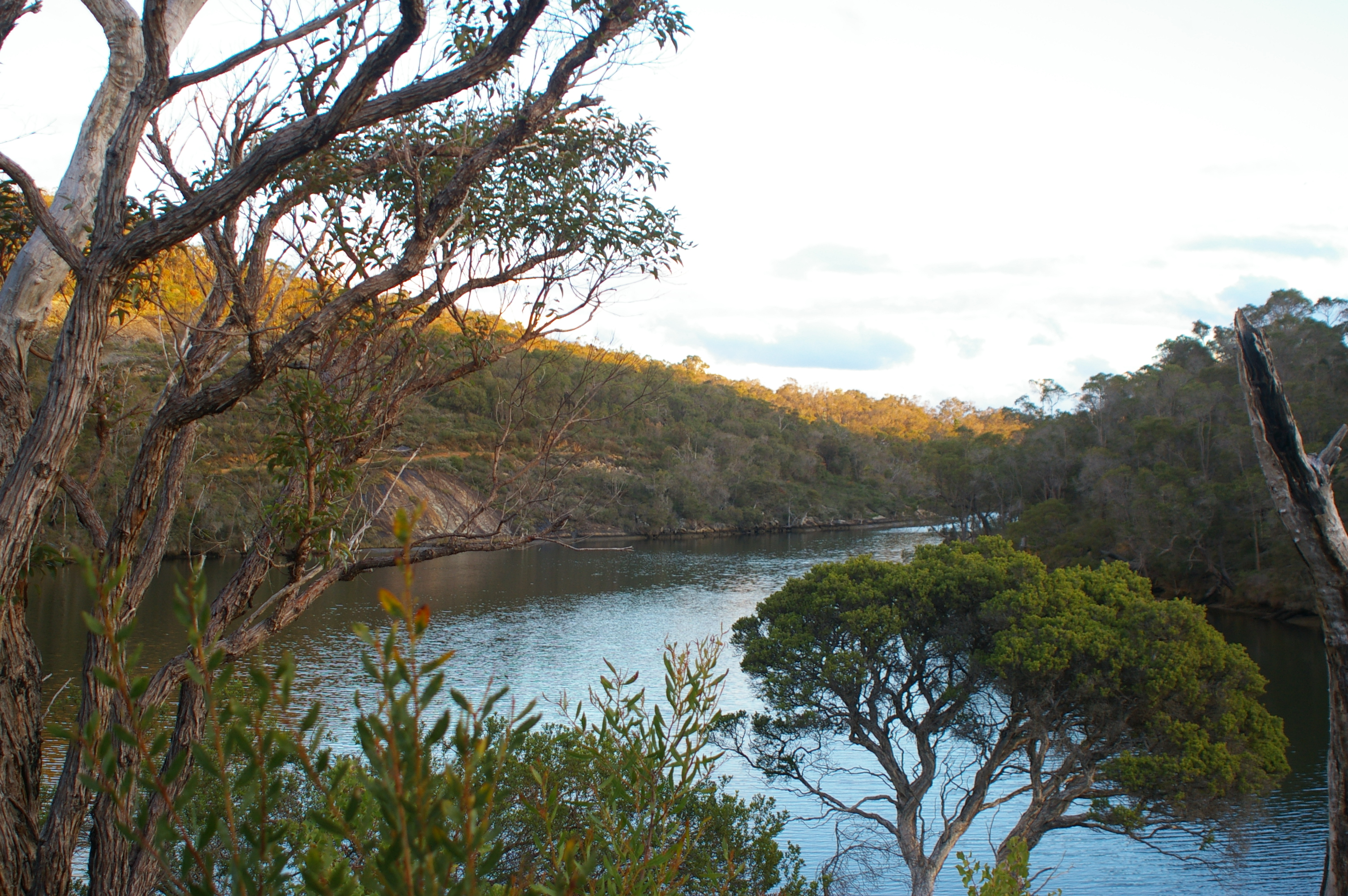 Photo taken April 16 2007 by Darren Hughes (myself) I release this photo into the public domain for anyone to use Photo taken from the Southern End of the Kalgan River for the end of East Bank Road